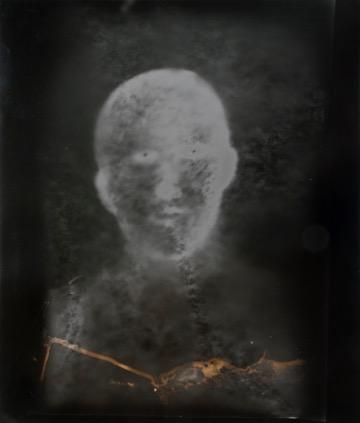 Jindra Viková, From the series Feelings I, 2003, photogram